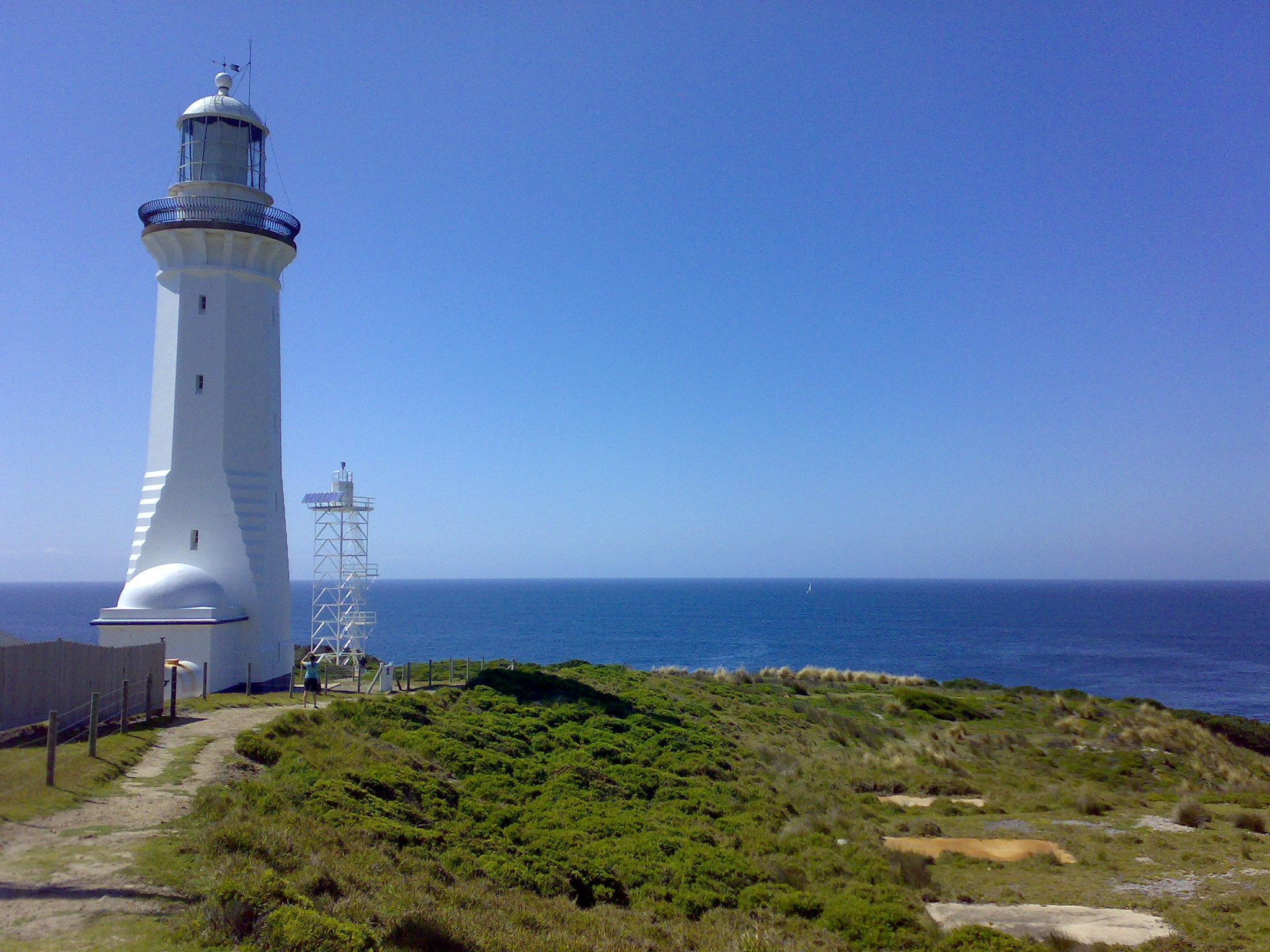 Green Cape Lighthouse and skeletal tower